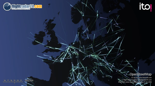 Flights returning to mainline Europe after the flight disruption after the Eyjafjallajökull eruption. There is limited data for France and parts of Spain.